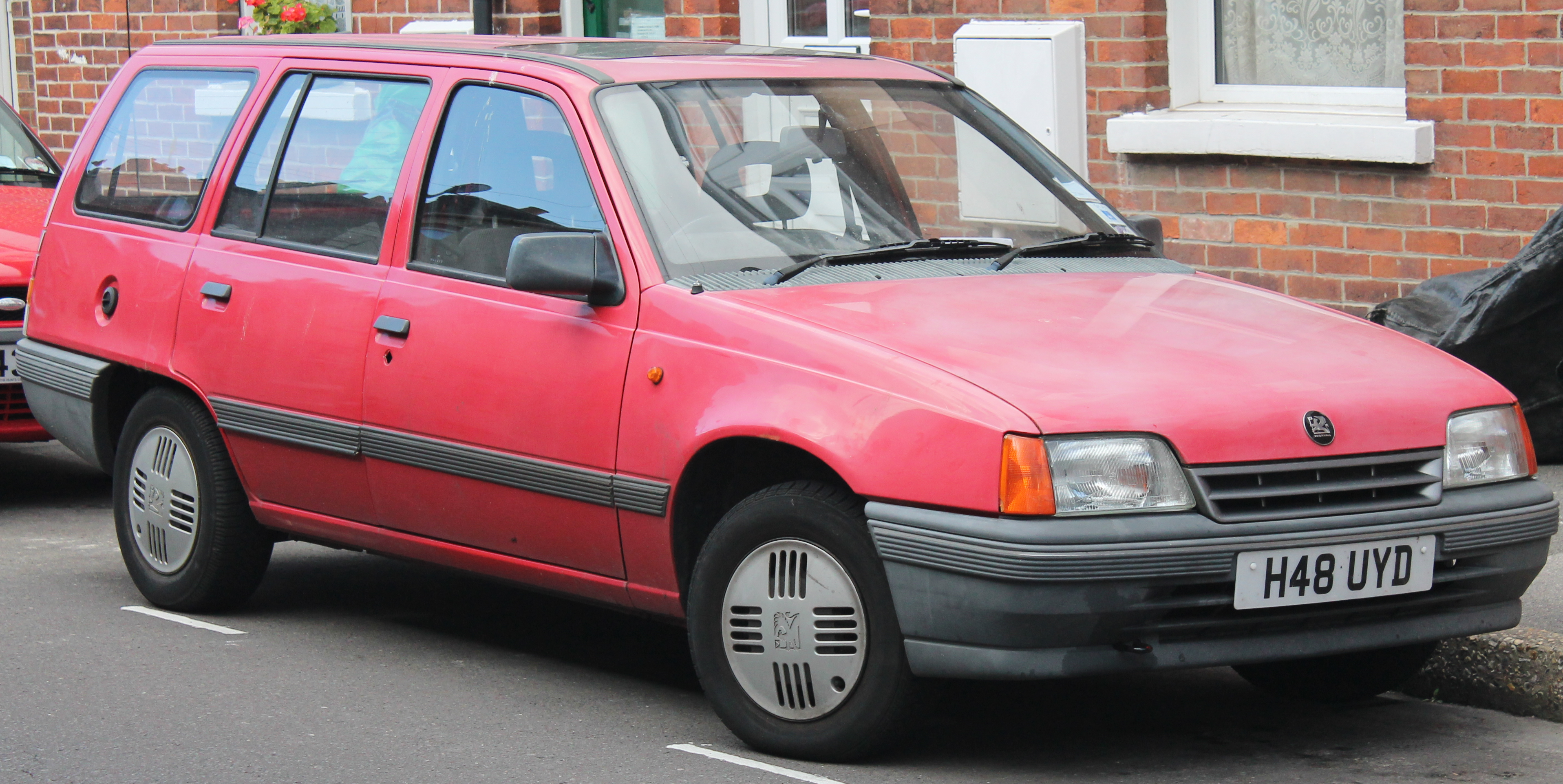 Also known as the "caravan". These older Astras are getting rarer now, and this one, although faded, is quite original. It even retains those funny old hubcaps, which I quite like! The number plate is in the newer font however. Pleased to see this, and on the same street as the Maestro too! I wanted to get a picture of the rear too, but the man in the car behind was glaring at me, so I thought it time to move on!